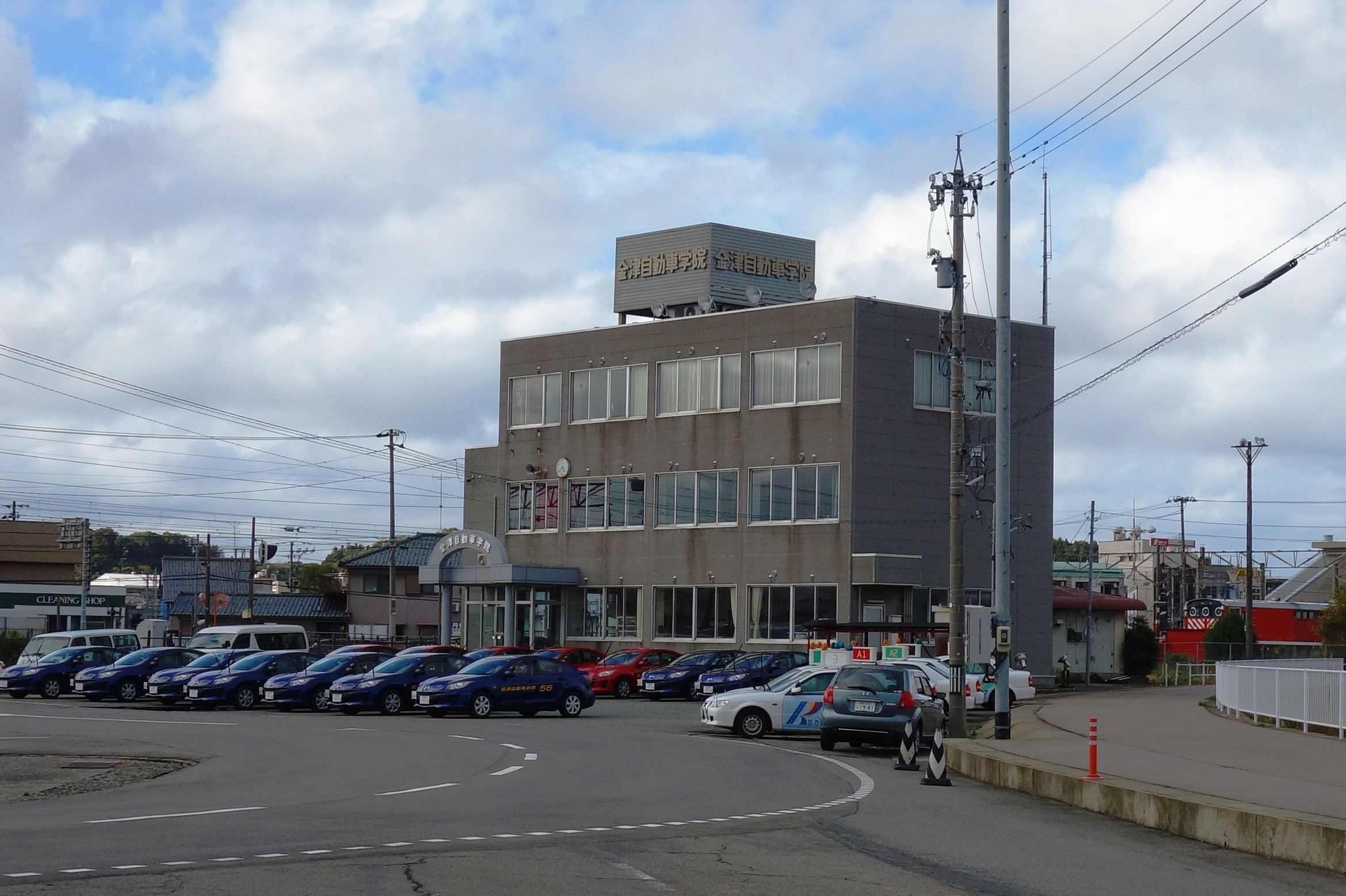 Kanazu Driving School, Awara City, Fukui Pref., Japan